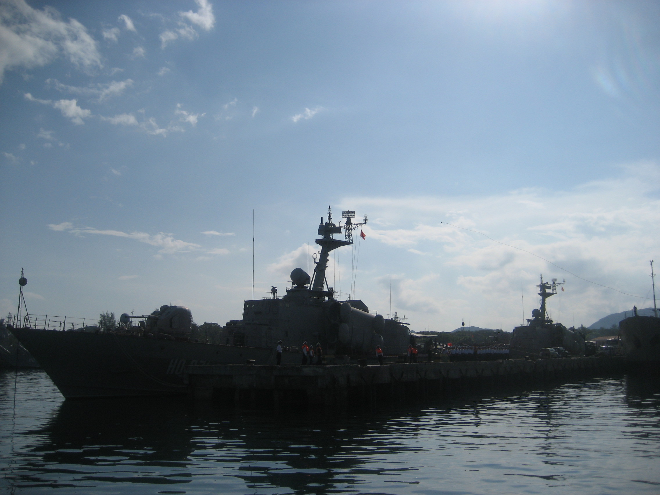 The project 1241RE missile boat of Vietnamese Navy.